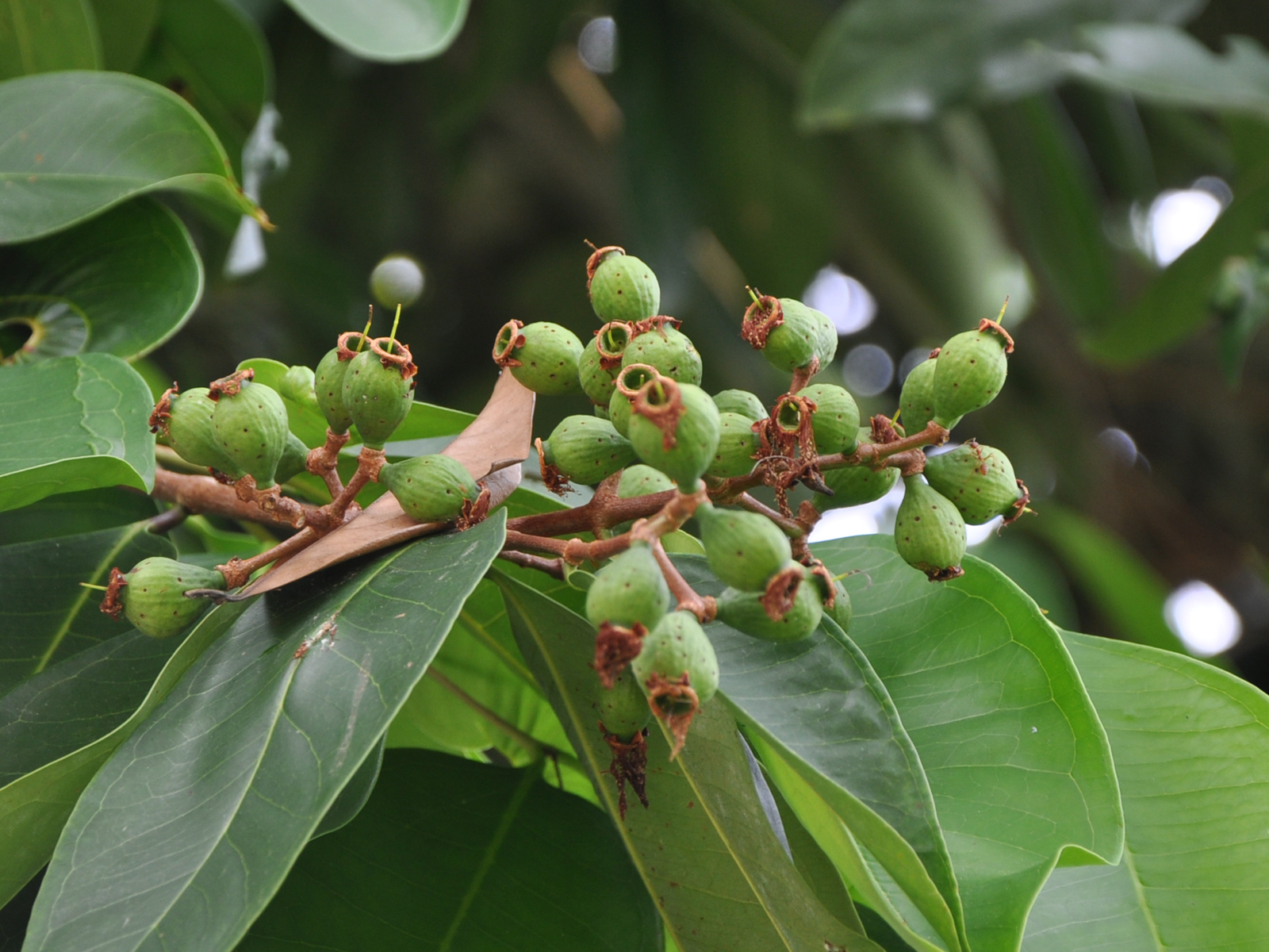 Fruits of Syzygium grande